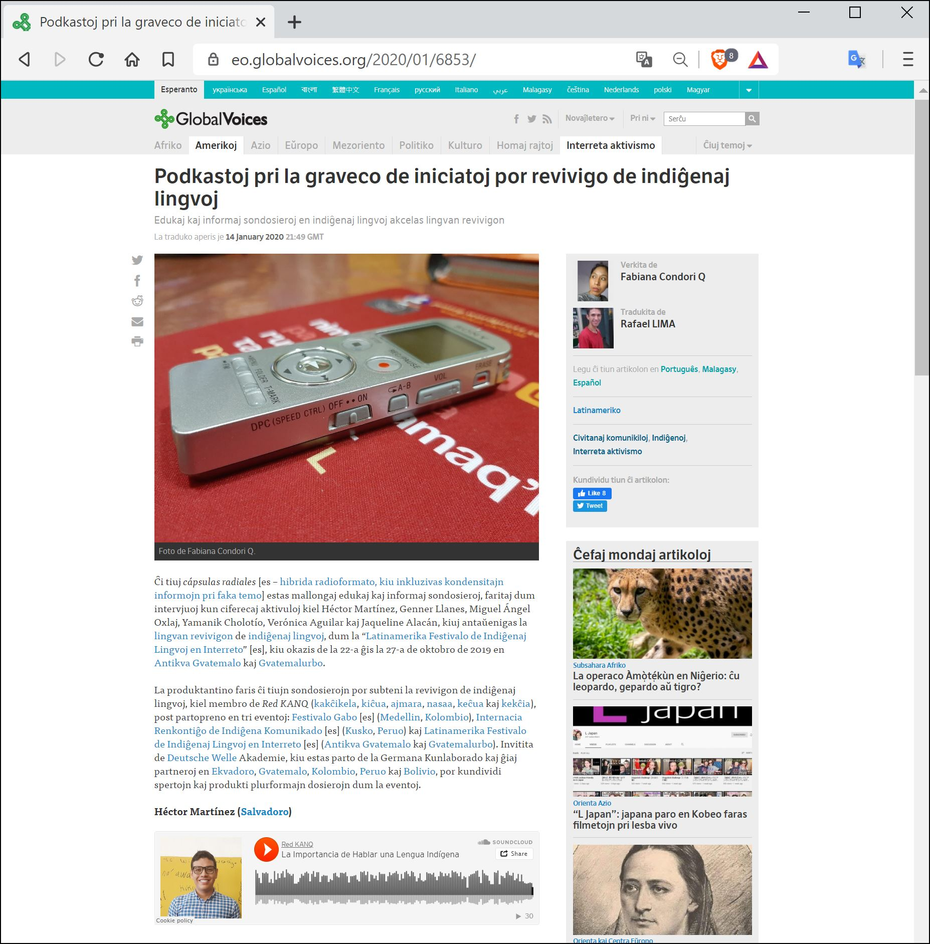 Tutmondaj Voĉoj - Global Voices in Esperanto in browser Brave